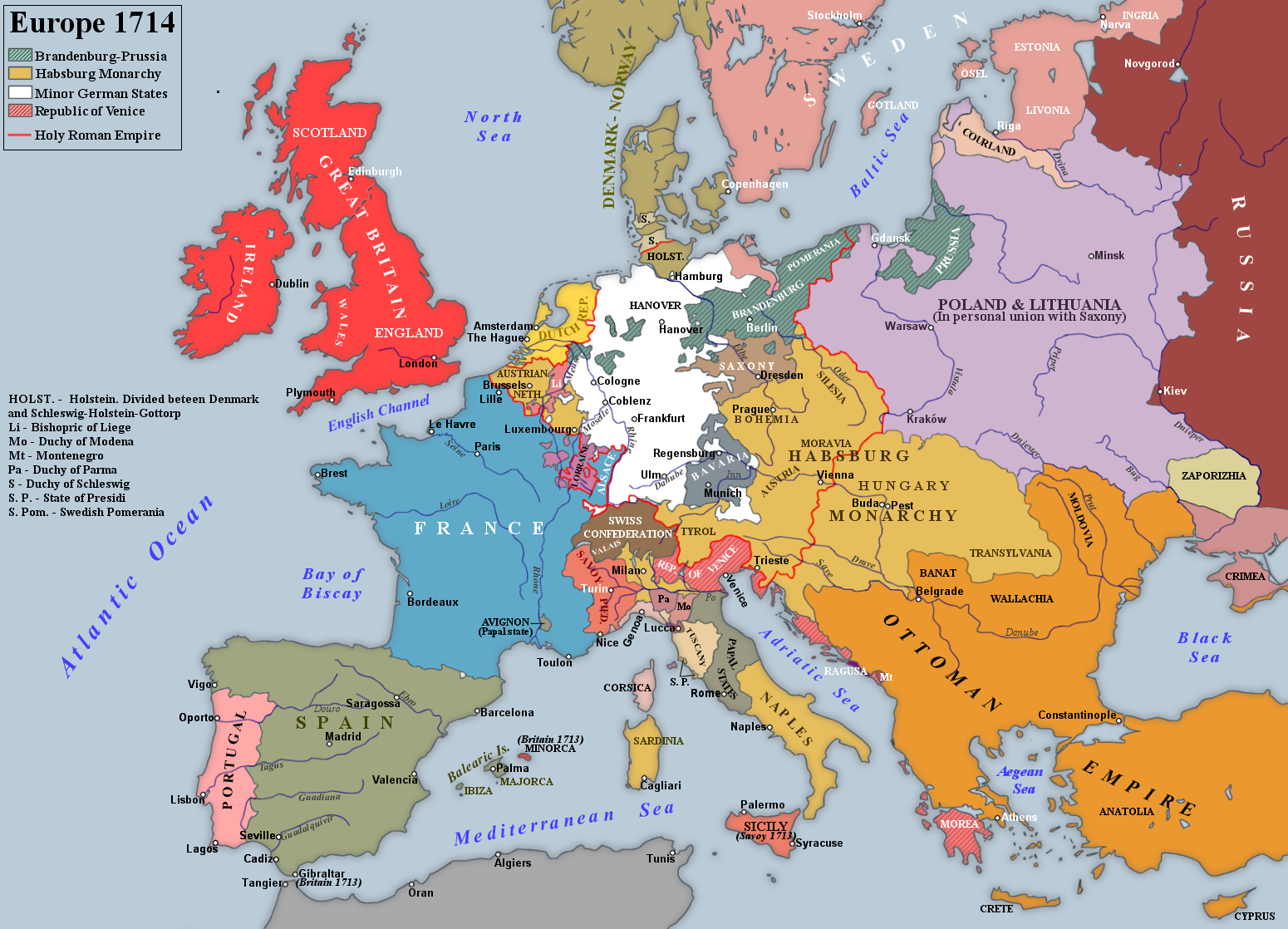 Europe in 1714 at the end of the War of the Spanish Succession.